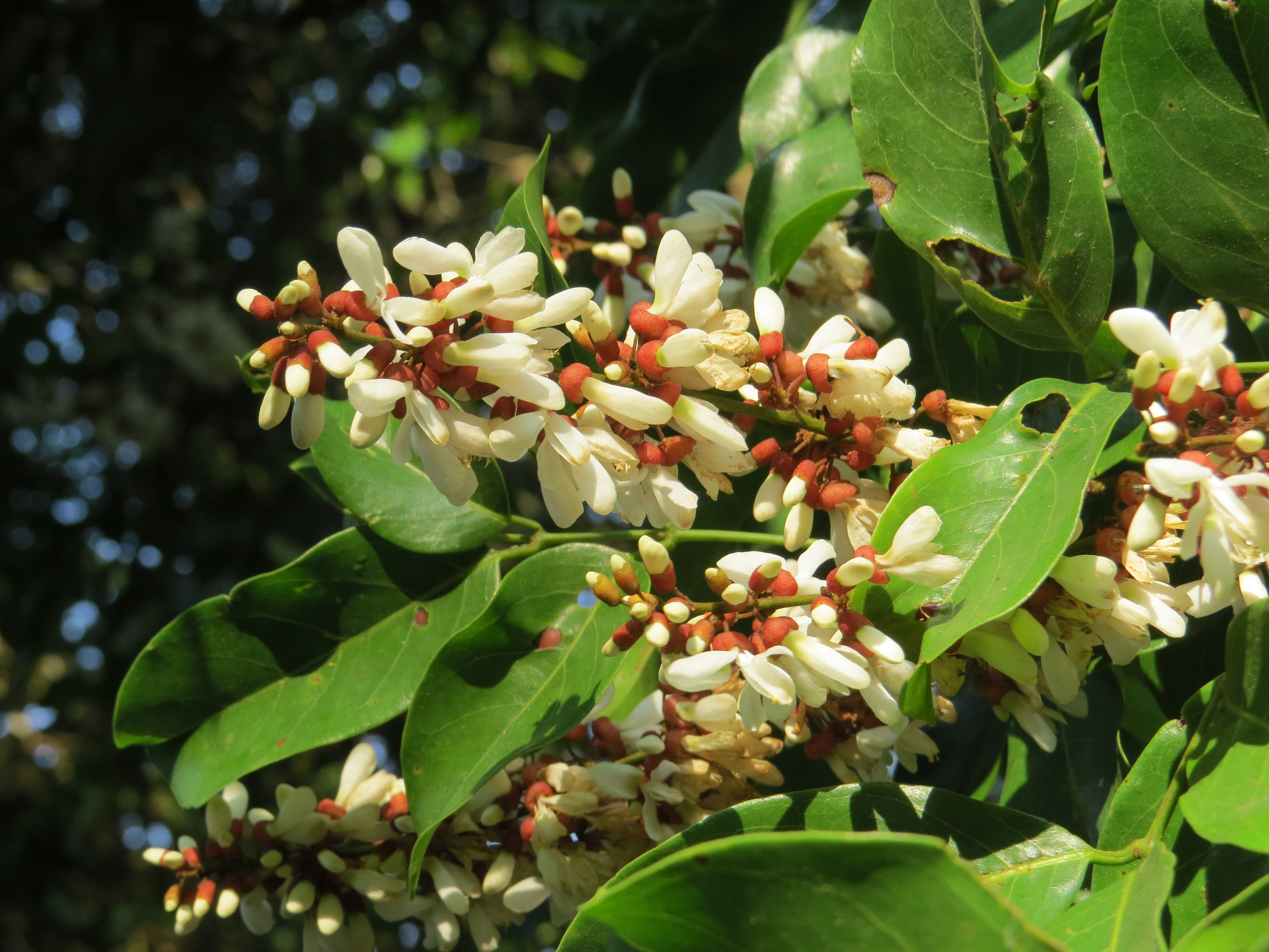 Derris scandens